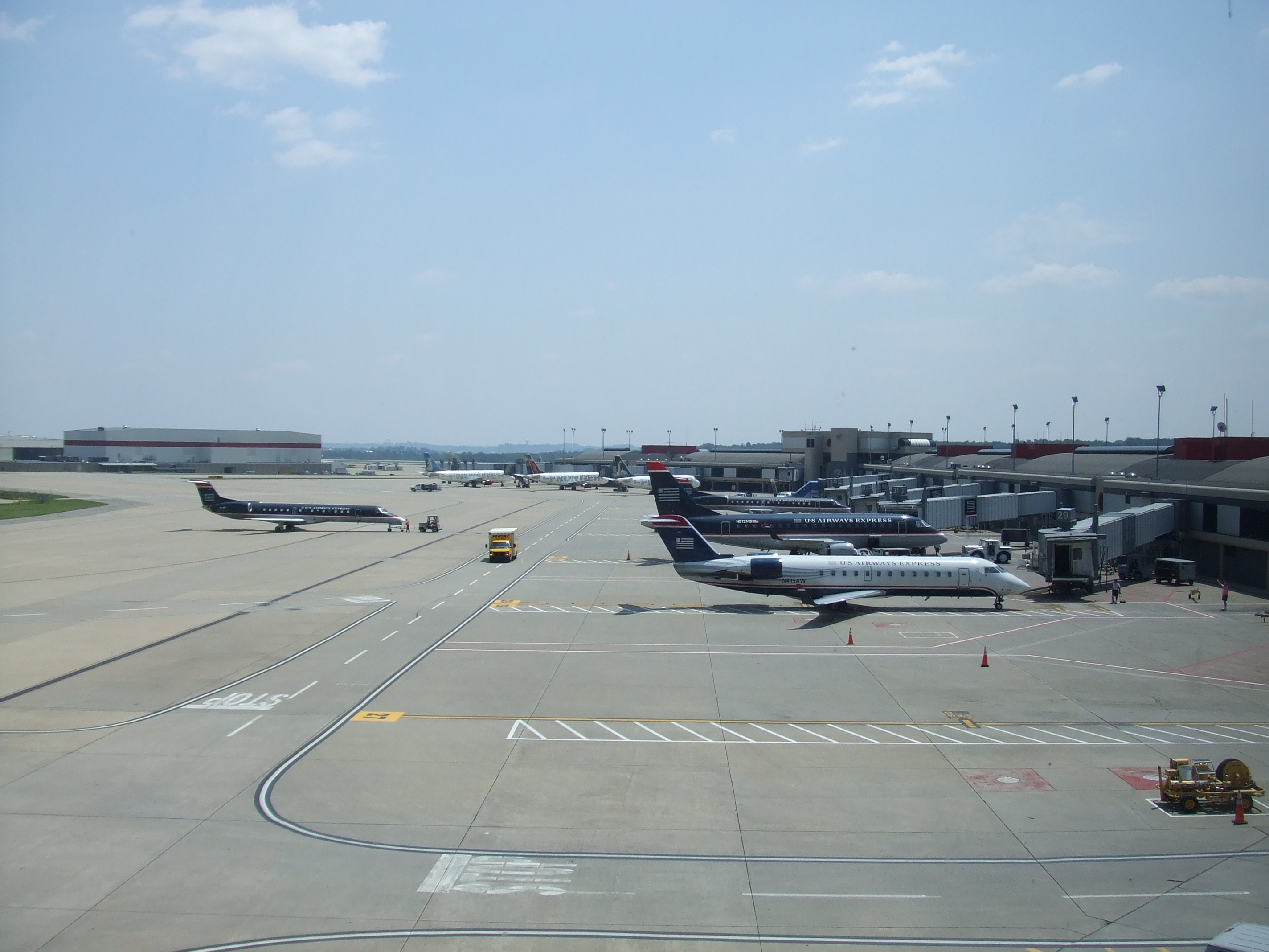 Concourse B of Pittsburgh International Airport in July 2008. Also available on John Marino's Flickr Page.